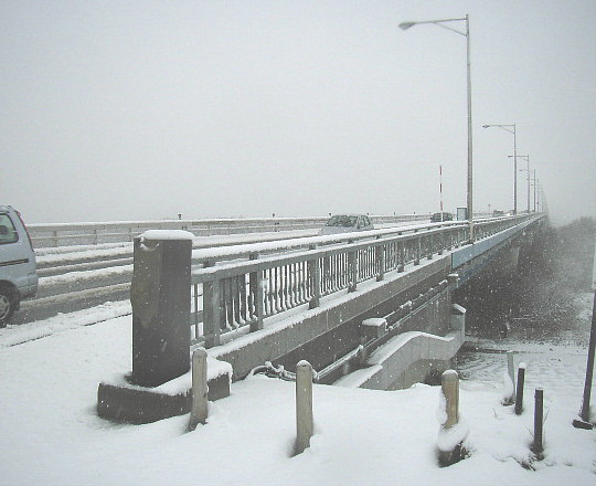 Sapporo Ohashi (Sapporo Grand Bridge)